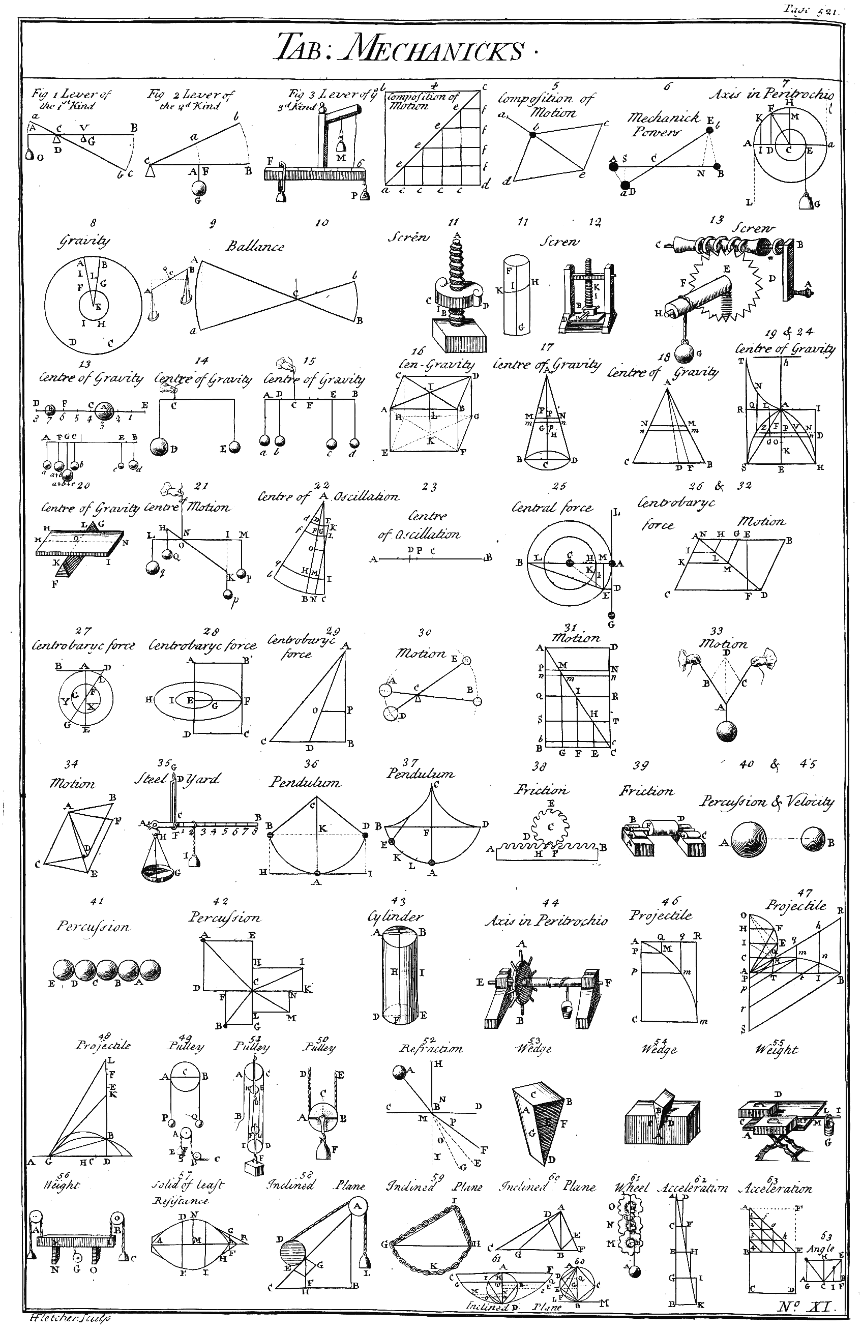 Table of Mechanicks, from Ephraim Chambers (1728) Cyclopaedia, A Useful Dictionary of Arts and Sciences, Vol. 2, London, p.528, Plate 11. This file was made from the JPG-file Image:Table of Mechanicks, Cyclopaedia, Volume 2.jpg by user:Berland, adjusted in Gimp with the Curves-tool to remove JPG-artefacts, and then converted to an 8-color indexed palette, resulting in a 9 times smaller file (1700KB to 210KB) and with improved image quality.